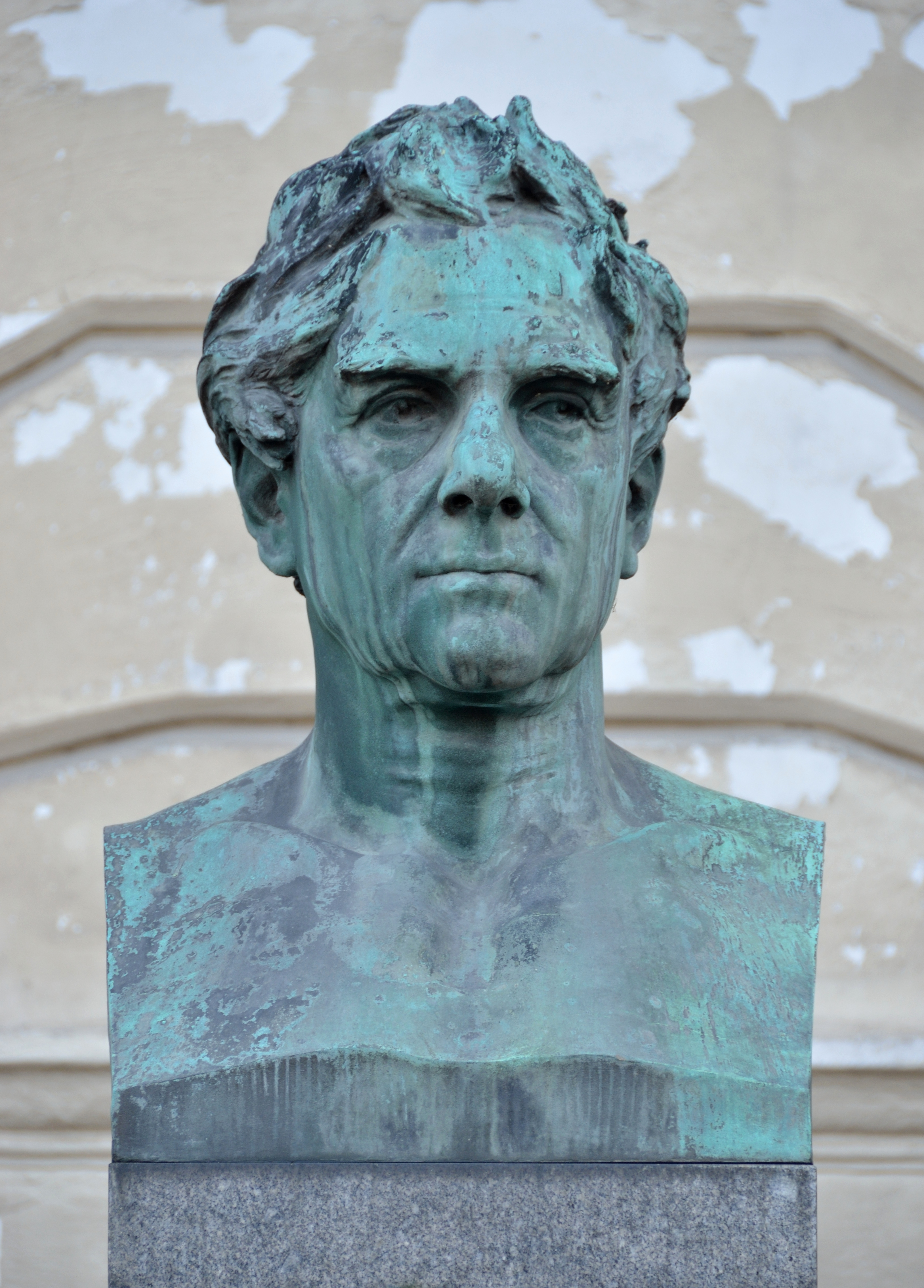 Bust of Johann Joseph von Prechtl (1778-1854) in front of the main building of the Vienna University of Technology at Karlsplatz, Vienna.